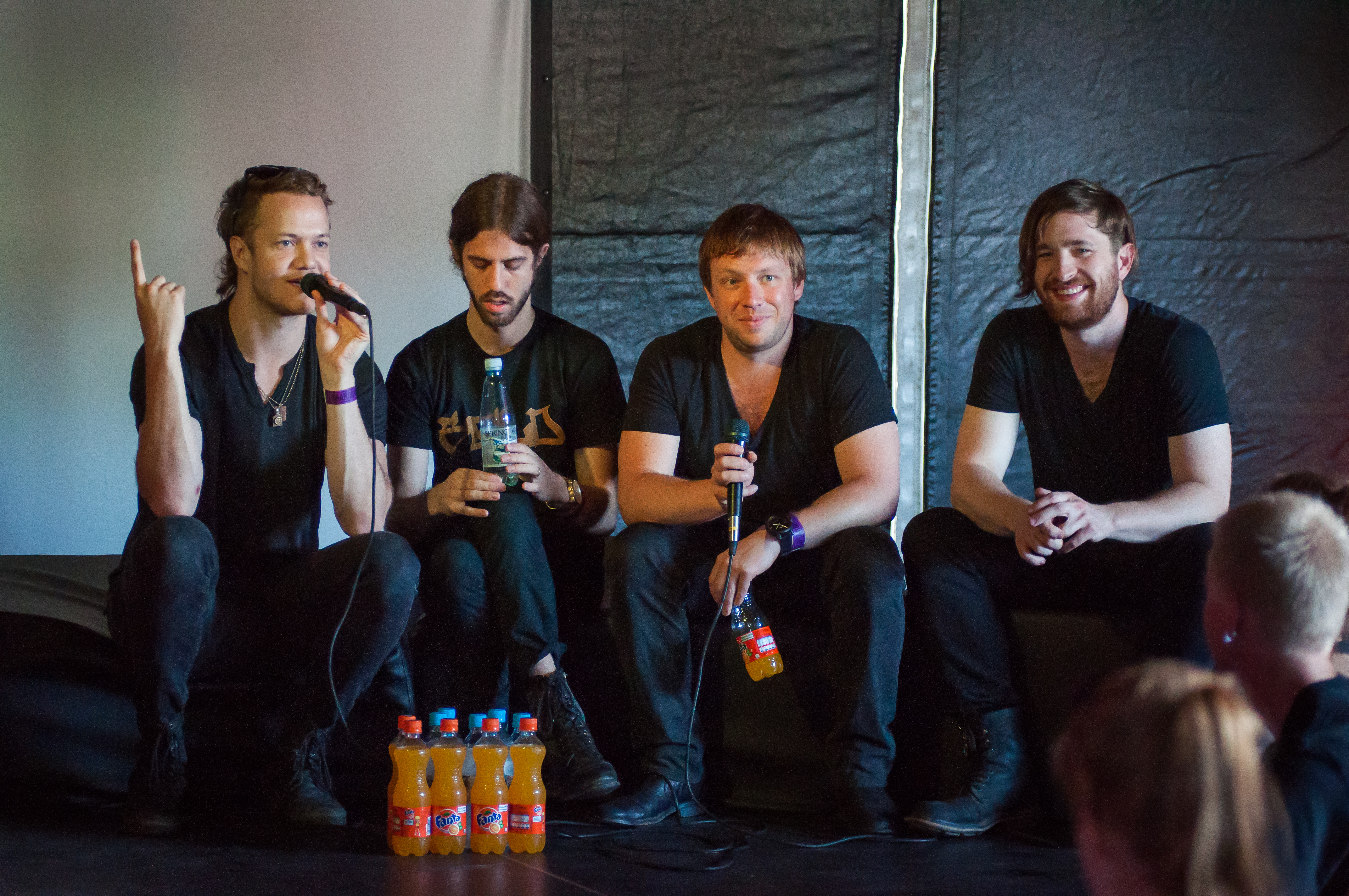 American alternative rock band Imagine Dragons being interviewed at the 2013 Ilosaarirock festival in Joensuu, Finland.